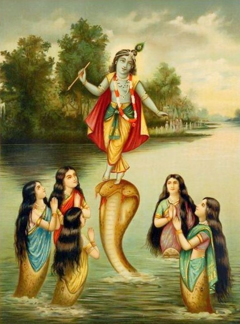 Kaliya Daman a later print, c. 1930’s, Roy Babajee & Co., Calcutta (via Facebook: Om from India)